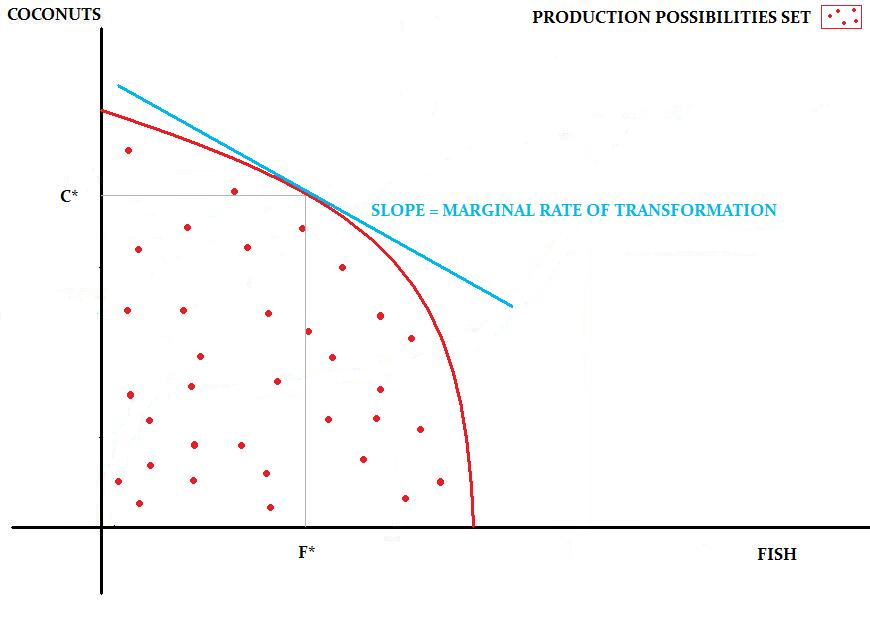 This graph shows the Production Possibilities Set in a Robinson Crusoe Economy under the special case of Crusoe being able to produce two commodities.